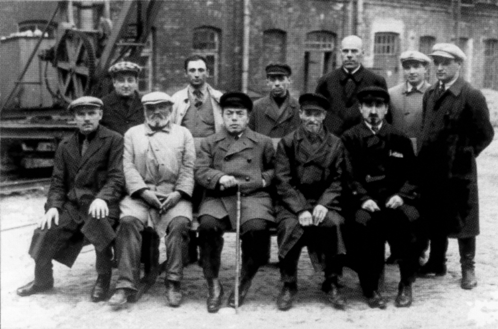 Masters of Frenkelis tannery in Šiauliai, about 1924. Jokūbas Frenkelis in center